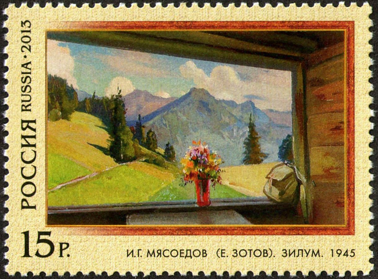 Art. The joint issue of the Russian Federation and the Principality of Liechtenstein.Silum by Ivan Myasoedov (Eugen Zotow; 1881–1953). 1945. The collection of Adulf Peter Goop. The stamp of Russia, 15.00 Rubles, 2 September 2013, PTC Marka Catalogue No 1730, Michel No 1962. Coated paper. Offset printing. Perforation: comb 12×11½. Size of the stamp: 50×37 mm. Print run: 300,000.